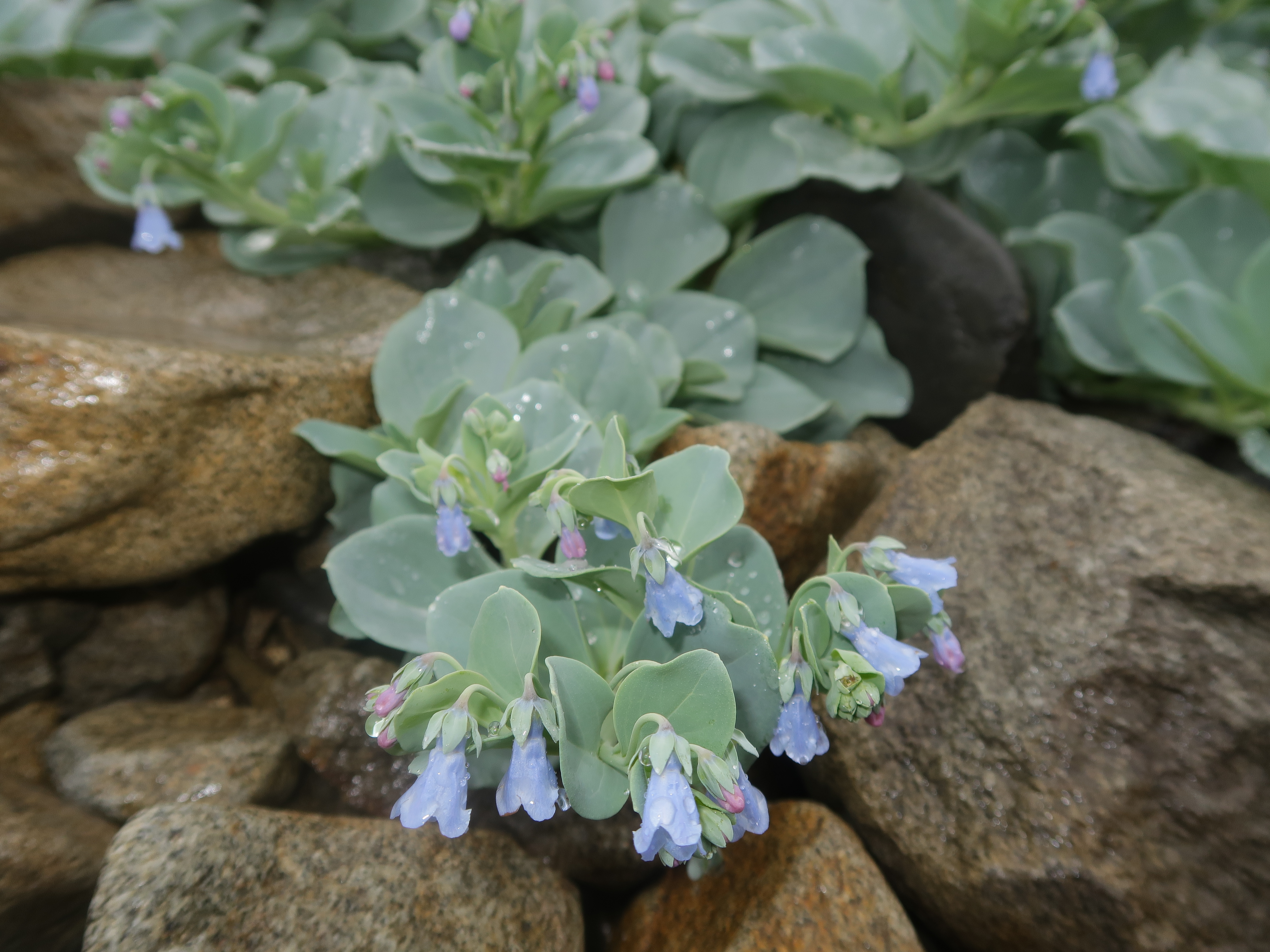 Mertensia maritima subsp. asiatica, Shimokita Peninsula, Aomori pref., Japan